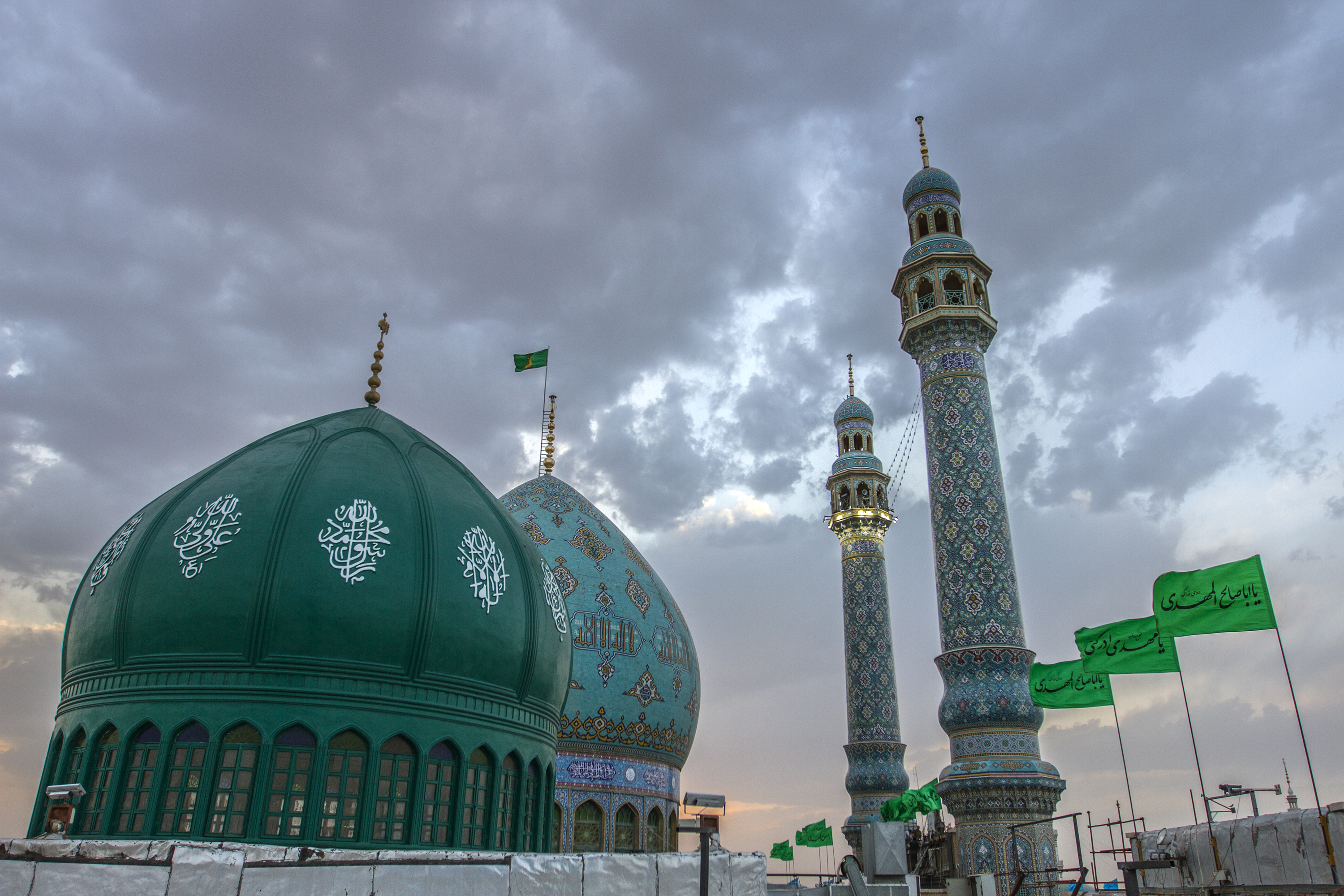 The Jamkaran Mosque is one of the primary significant mosques in the city of Qom, Iran.